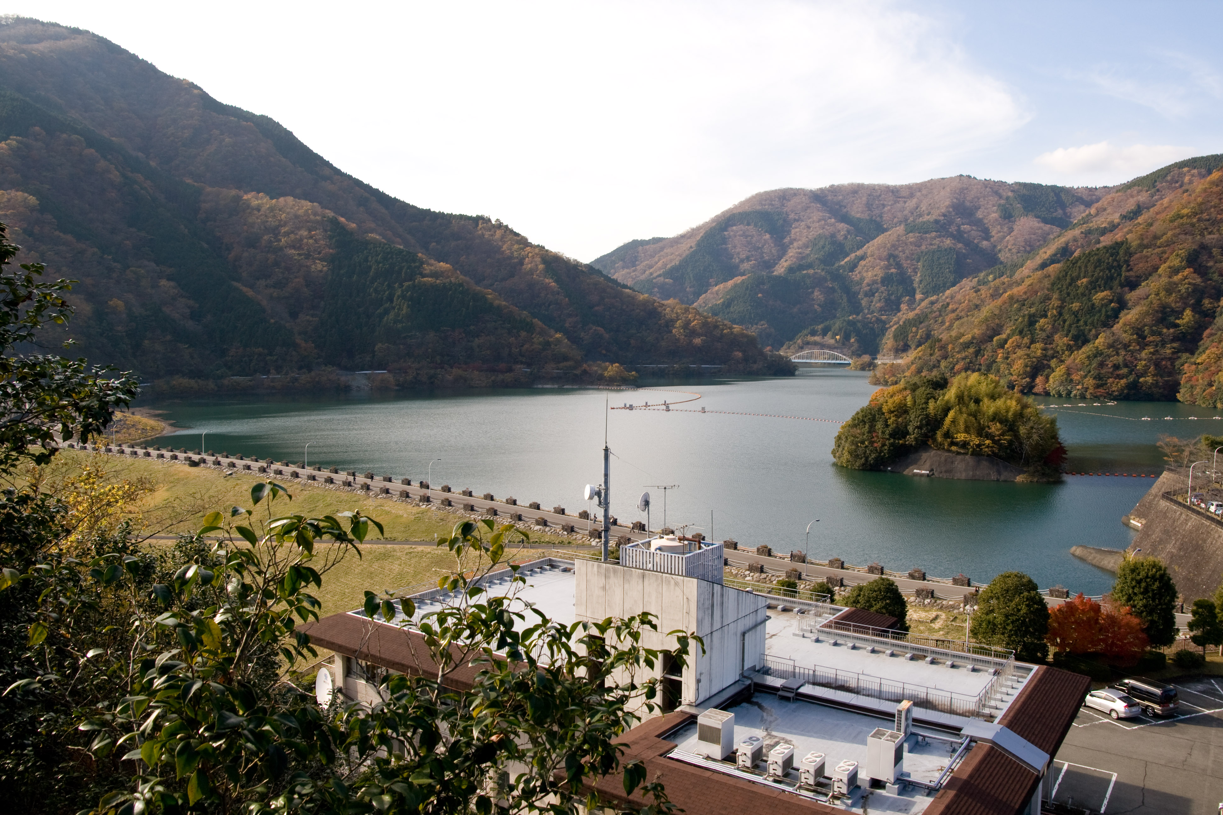 Lake Tanzawa, Yamakita Town, Kanagawa Pref., Japan.